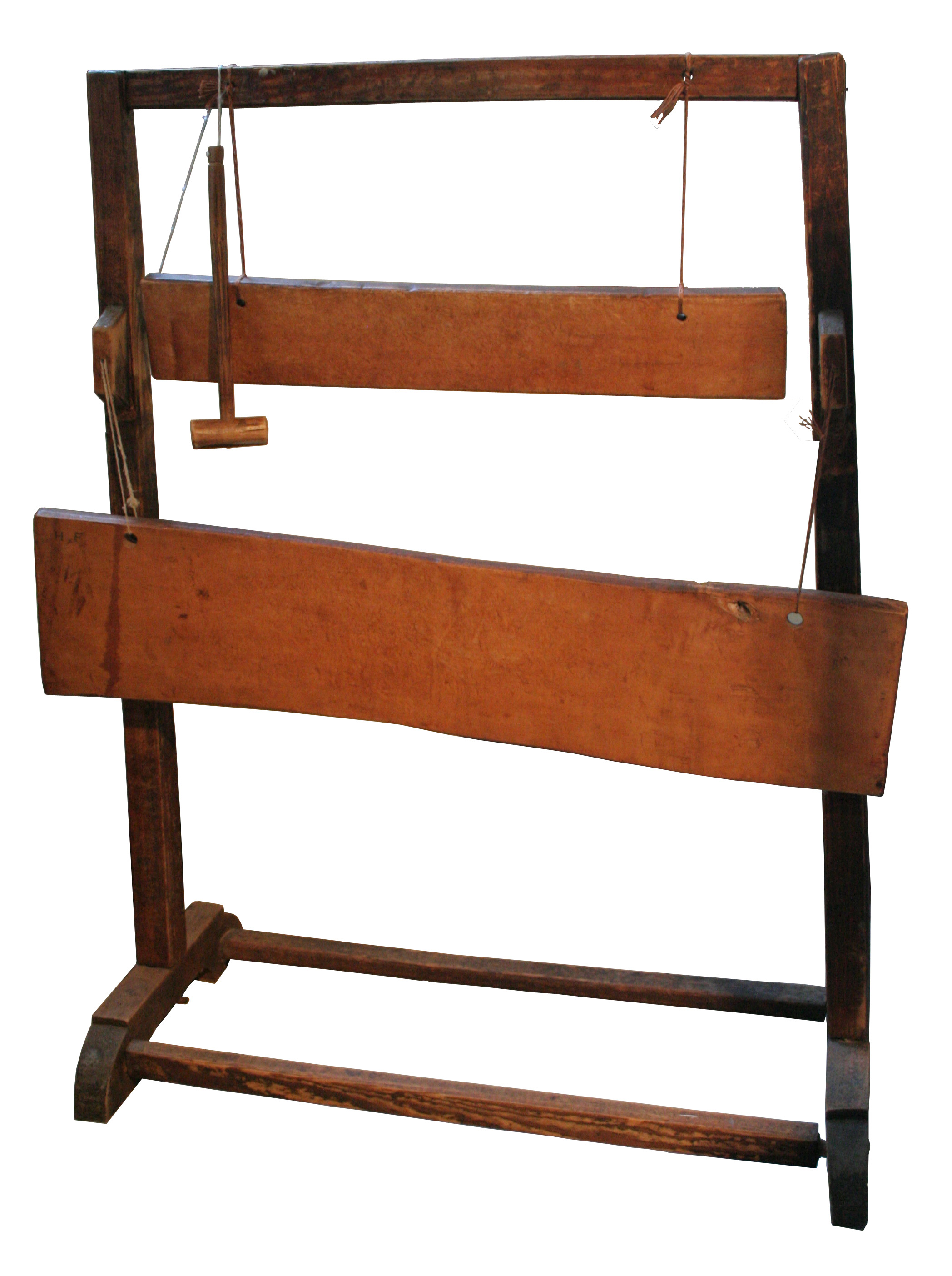 A so called Hillebille. Even into the 20th Jahrhundert Century Hillebills were used as a tool for alerts and information by the woodcutters and charcoal burners in remote areas of the Harz and of the Thuringian Forest in Germany.